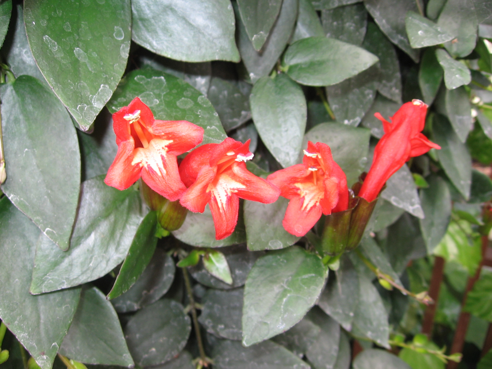 Aeschynanthus pulcher, Jardin botanique de Montréal